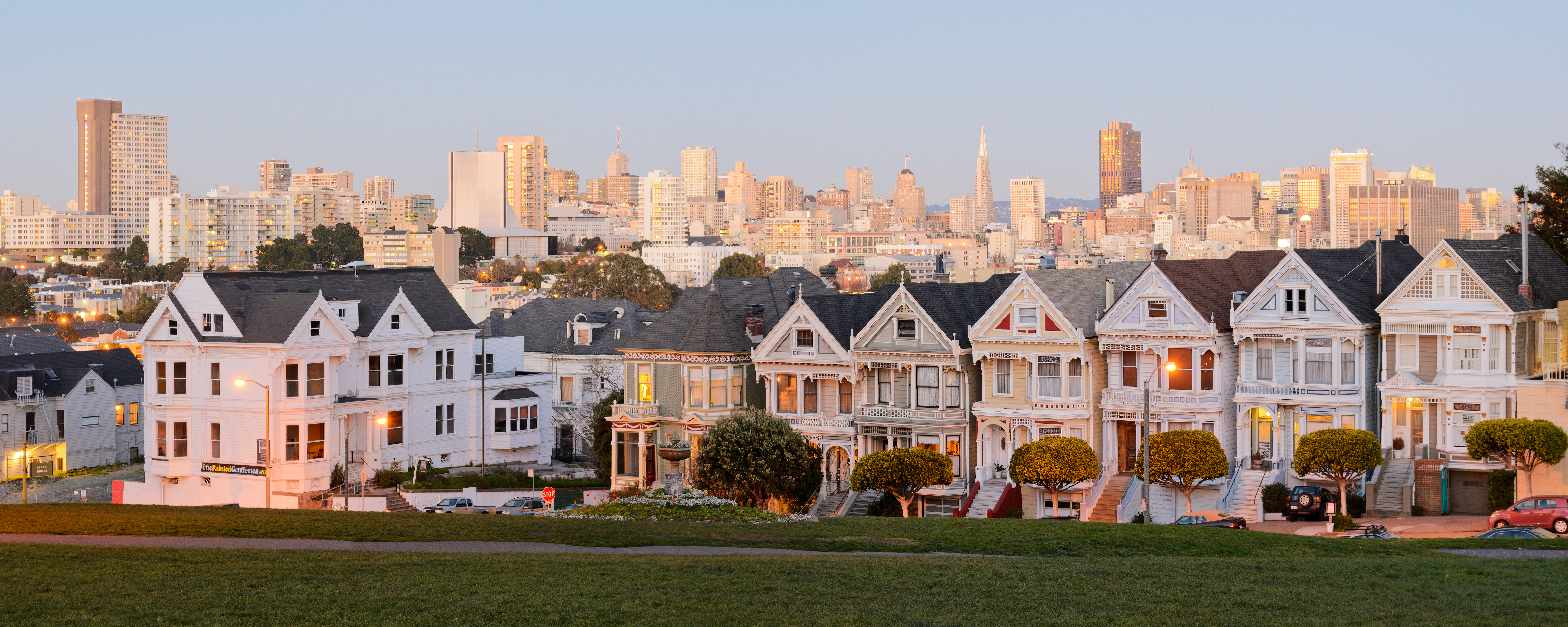 A two-segment panorama of the Painted Ladies in the city of San Francisco with the skyline of the city in the background.